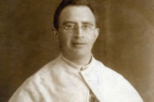 Eustáquio von Lieshout (1890-1943), catholic priest, missionary, blessed catholic